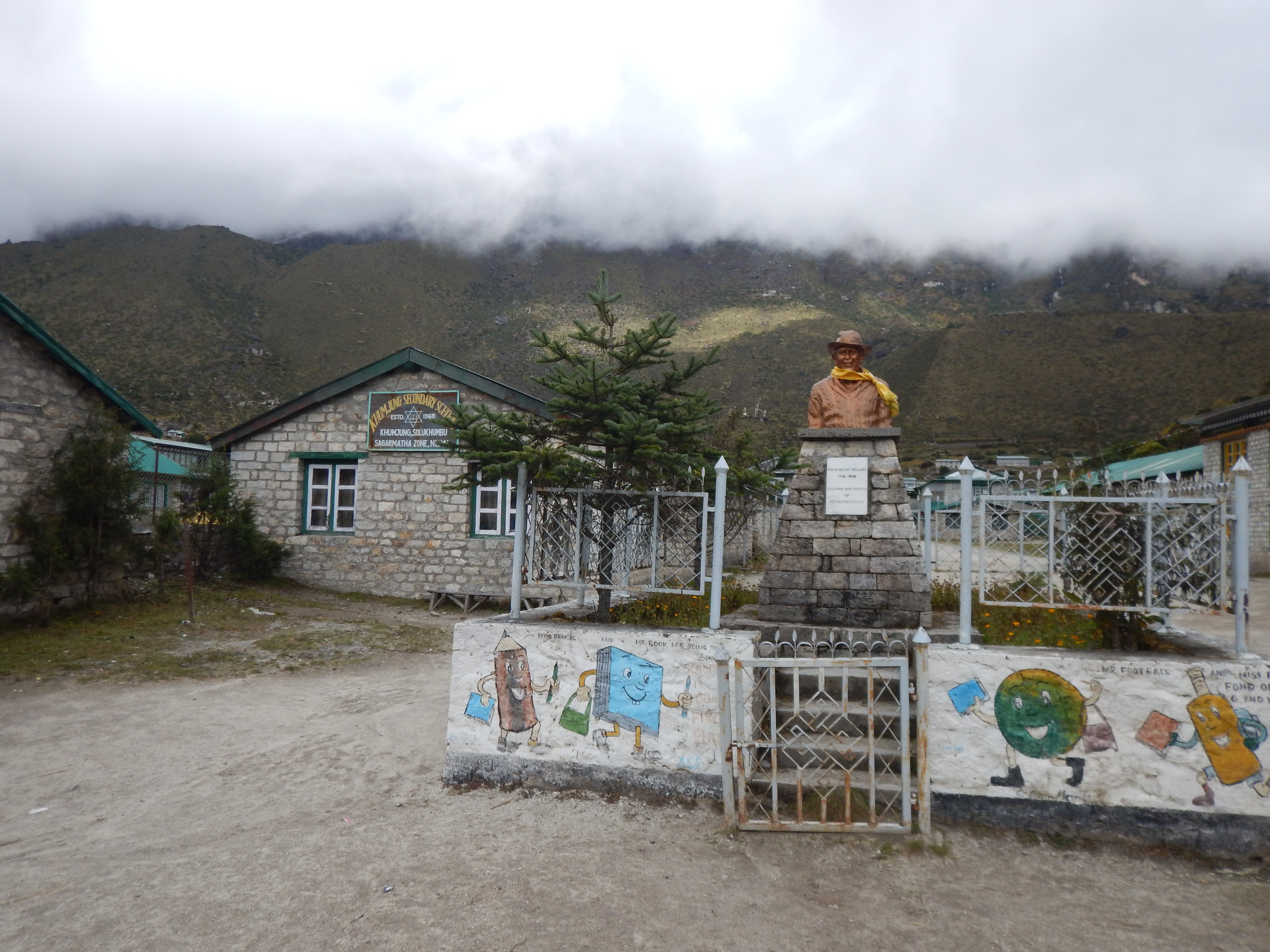 Khumjung Secundary School (Hillary School), in Khumjung, Nepal, built in 1961.